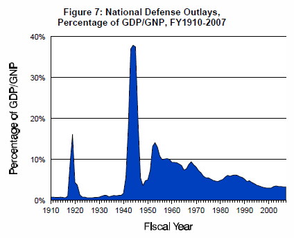 National Defense Outlays, FY1910-2007, as percentage of GDP The confusing "GNP/GDP" axis is clarified on page 21 of the report: "GNP before 1930, GDP thereafter."